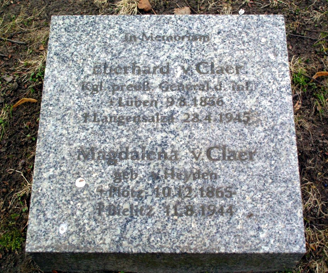 Grave of Eberhard and Magdalena von Claer